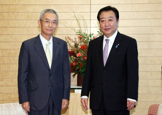 Kōichi Endō, Chief Information Officer of the Cabinet Secretariat, met Yoshihiko Noda, Prime Minister, at the Prime Minister's Official Residence in Chiyoda Ward, Tōkyō Metropolis on September 6, 2012.